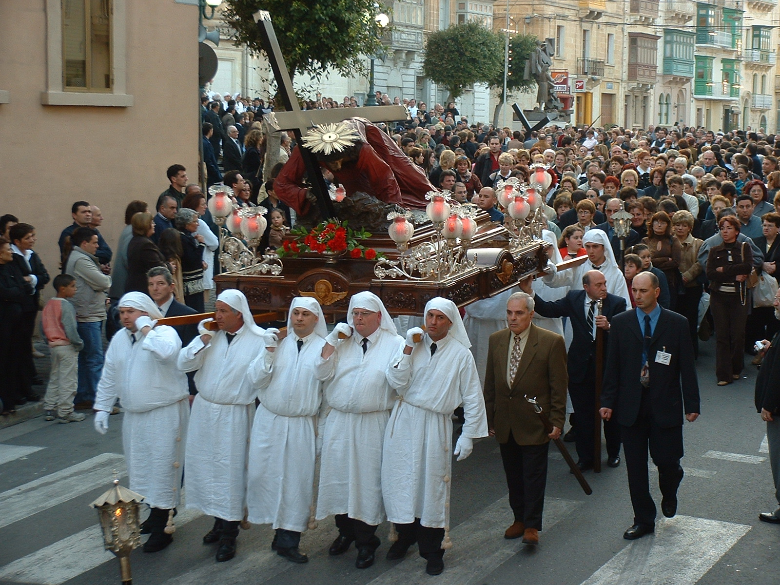 Gesu Redentur - Senglea